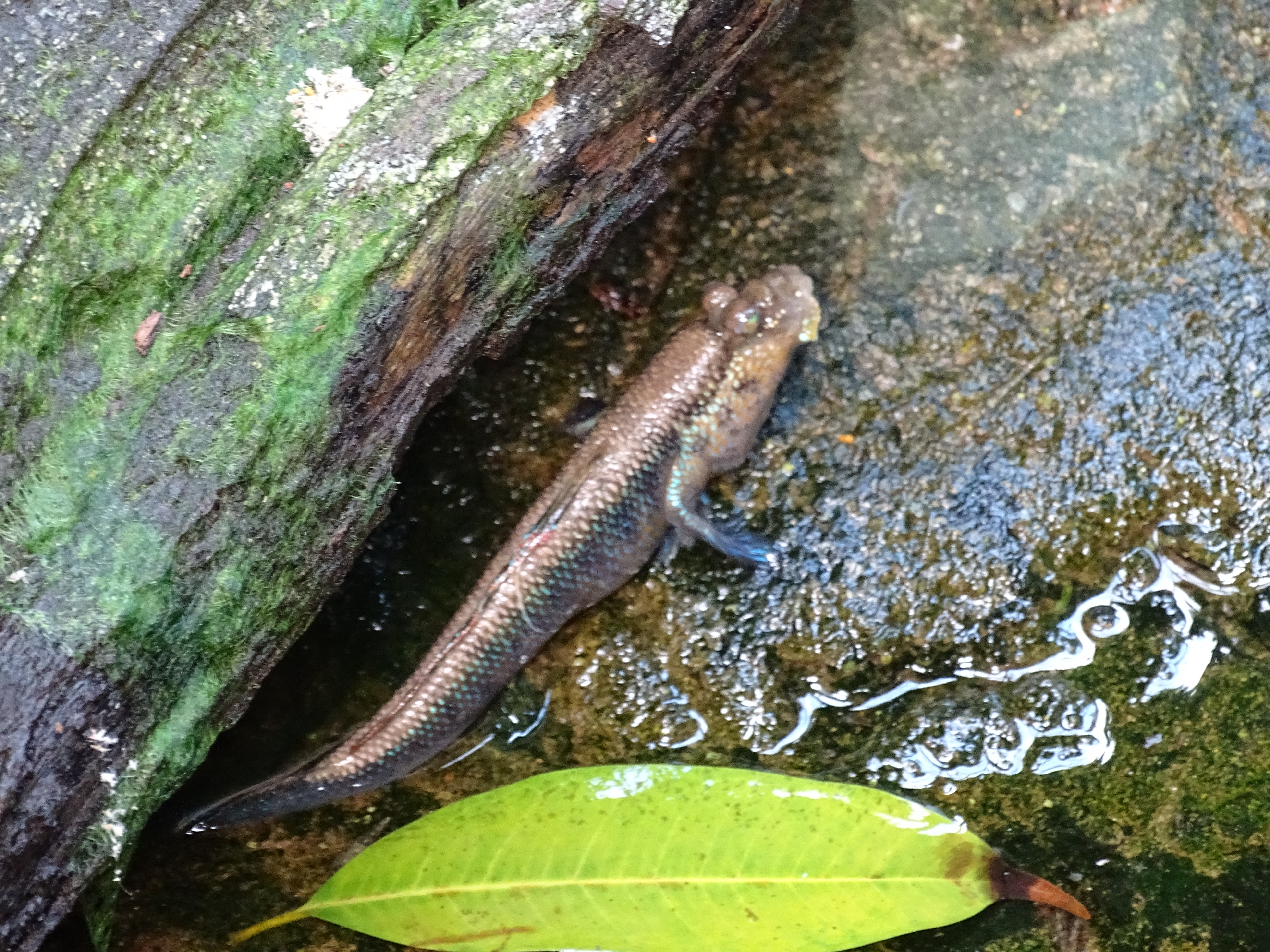 Prague-Troja, Czech Republic. Prague Zoo. Atlantic mudskipper.